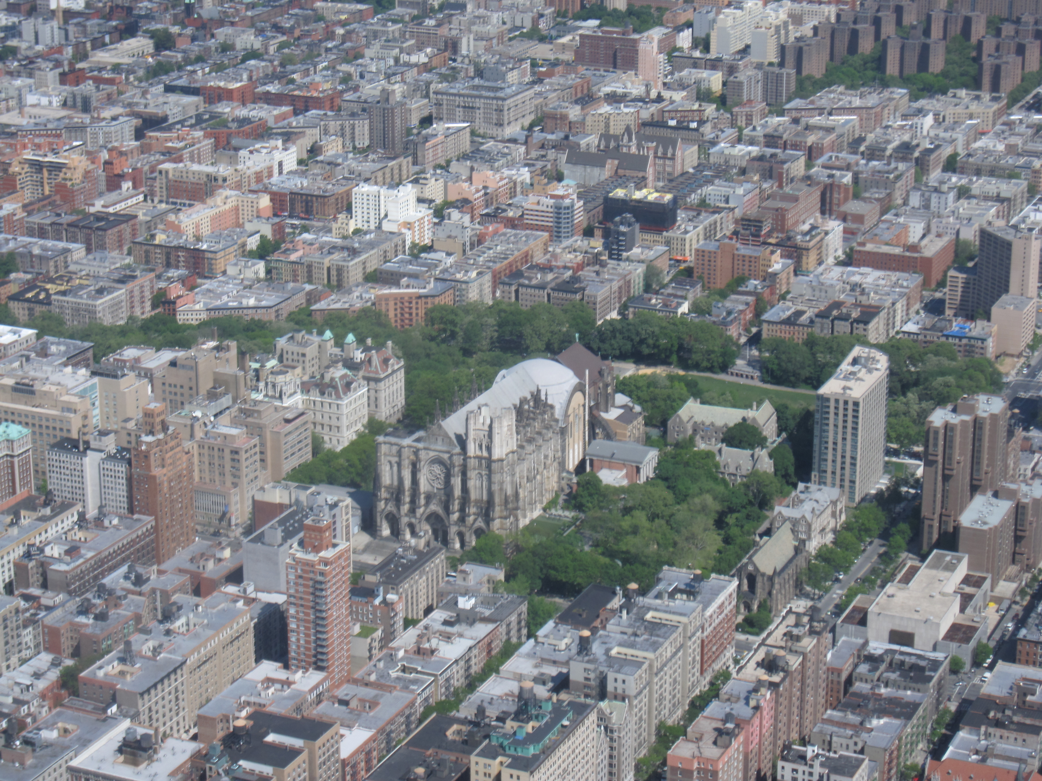 Cathedral of Saint John the Divine, New York